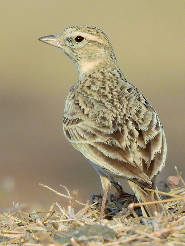 Greater short-toed lark (Calandrella brachydactyla) from Mangaon, Raigad, Maharashtra, India Photograph by Shantanu Kuveskar